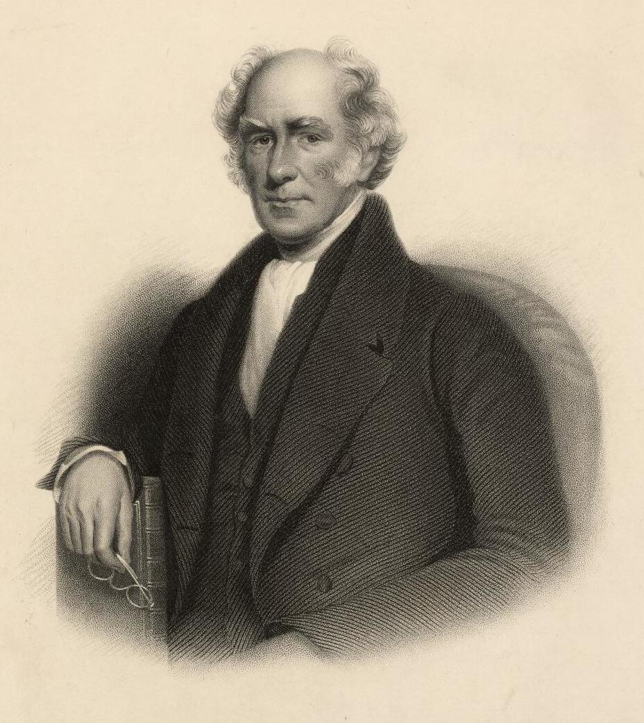 A portrait from the Welsh Portrait Collection at the National Library of Wales. Depicted person: Ralph Wardlaw